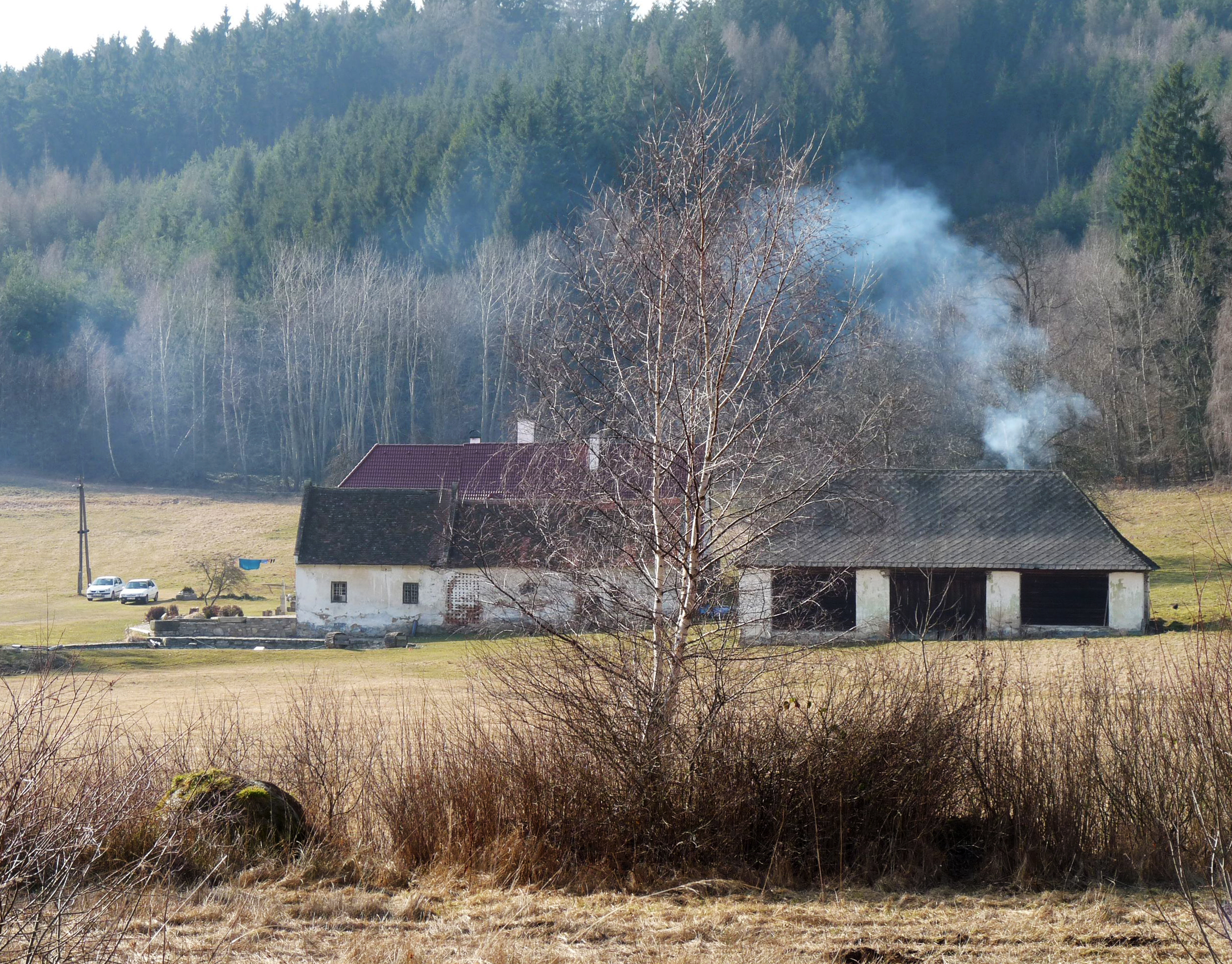 House No 12 in the village of Bohouškovice, part of Křemže, České Budějovice District, Czech Republic.